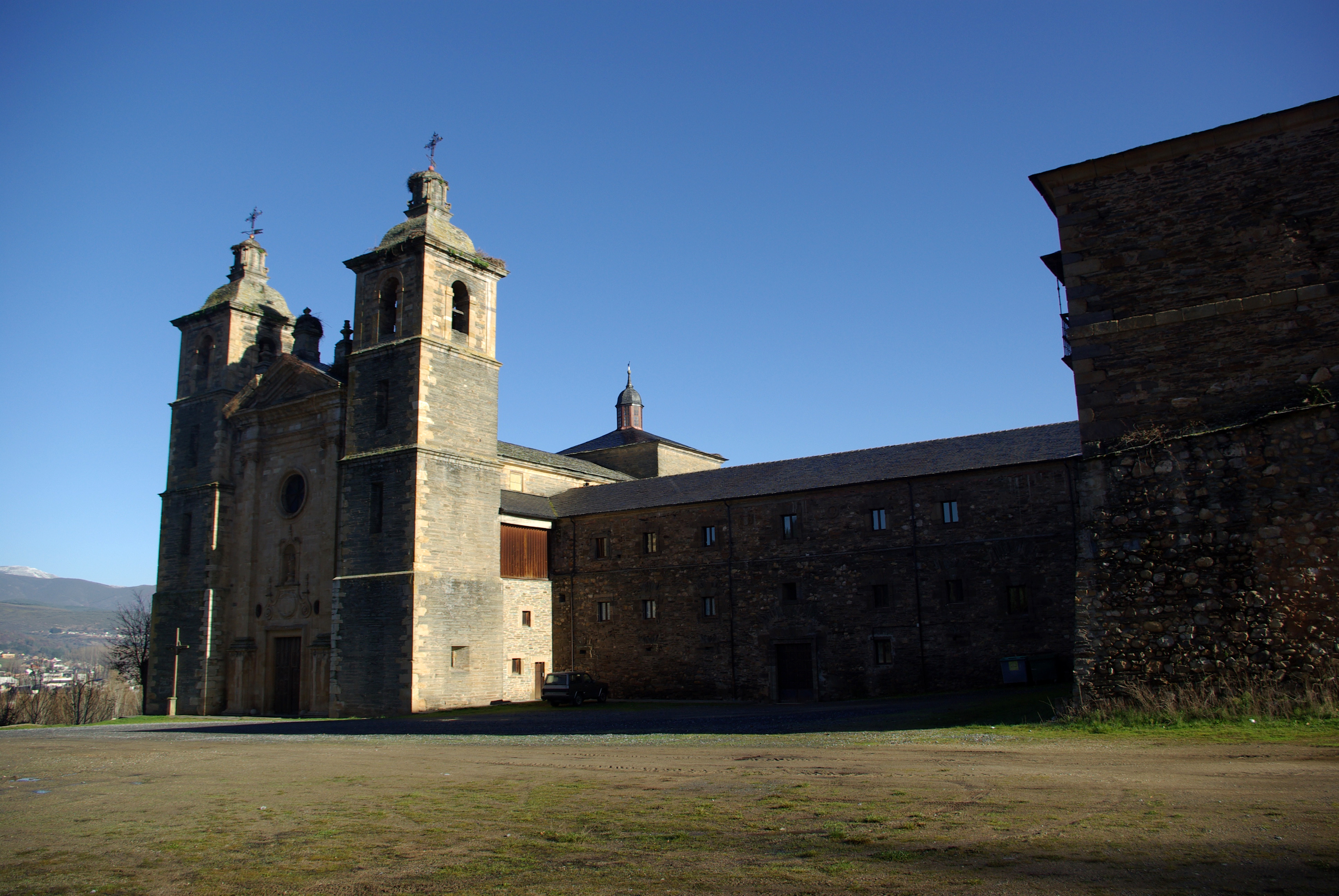 Saint Andrew of Espinareda Abbey in Vega de Espinareda (León, Spain). Church and monastery.